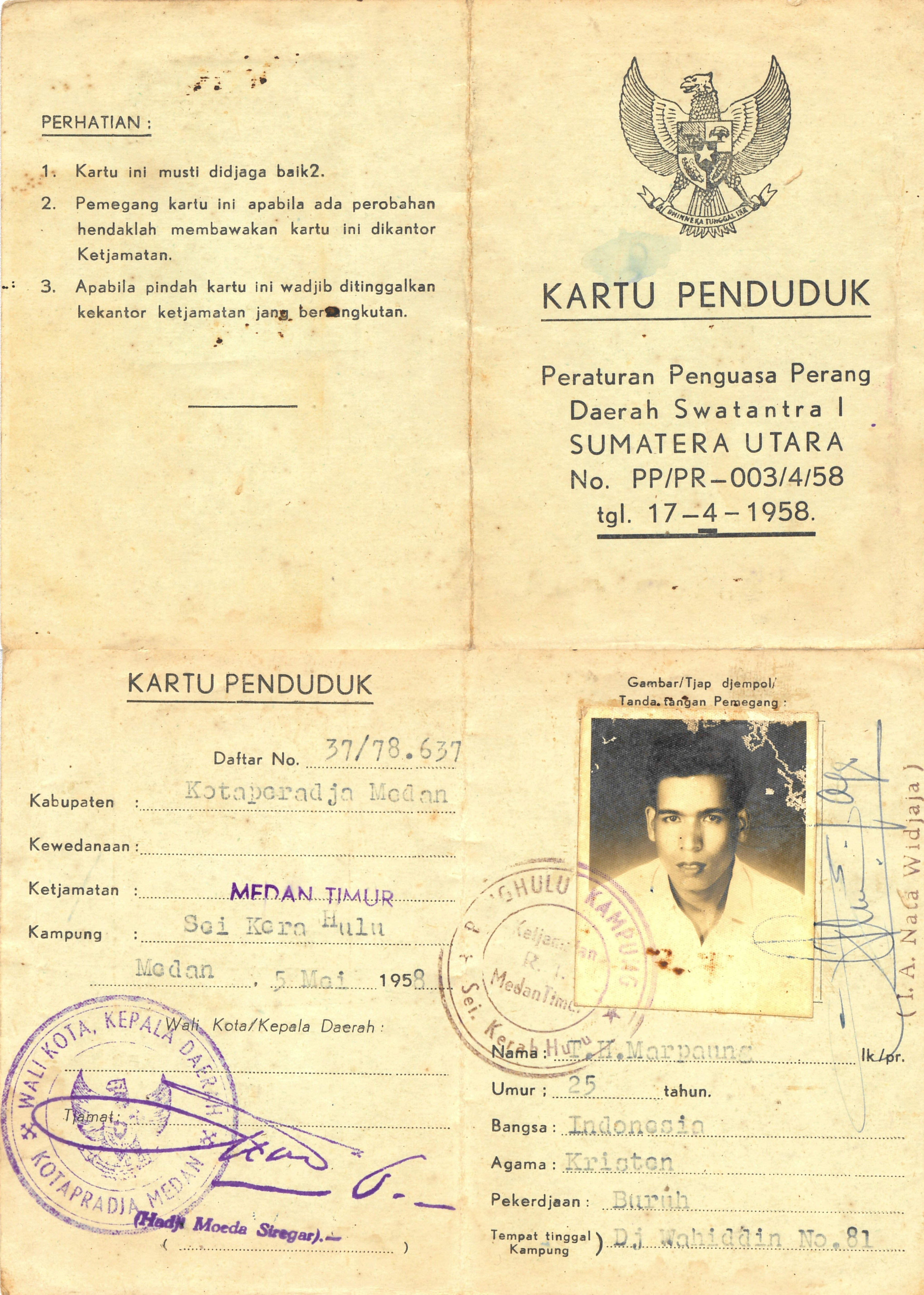 A resident card issued by the Government of North Sumatra for TH Marpaung.